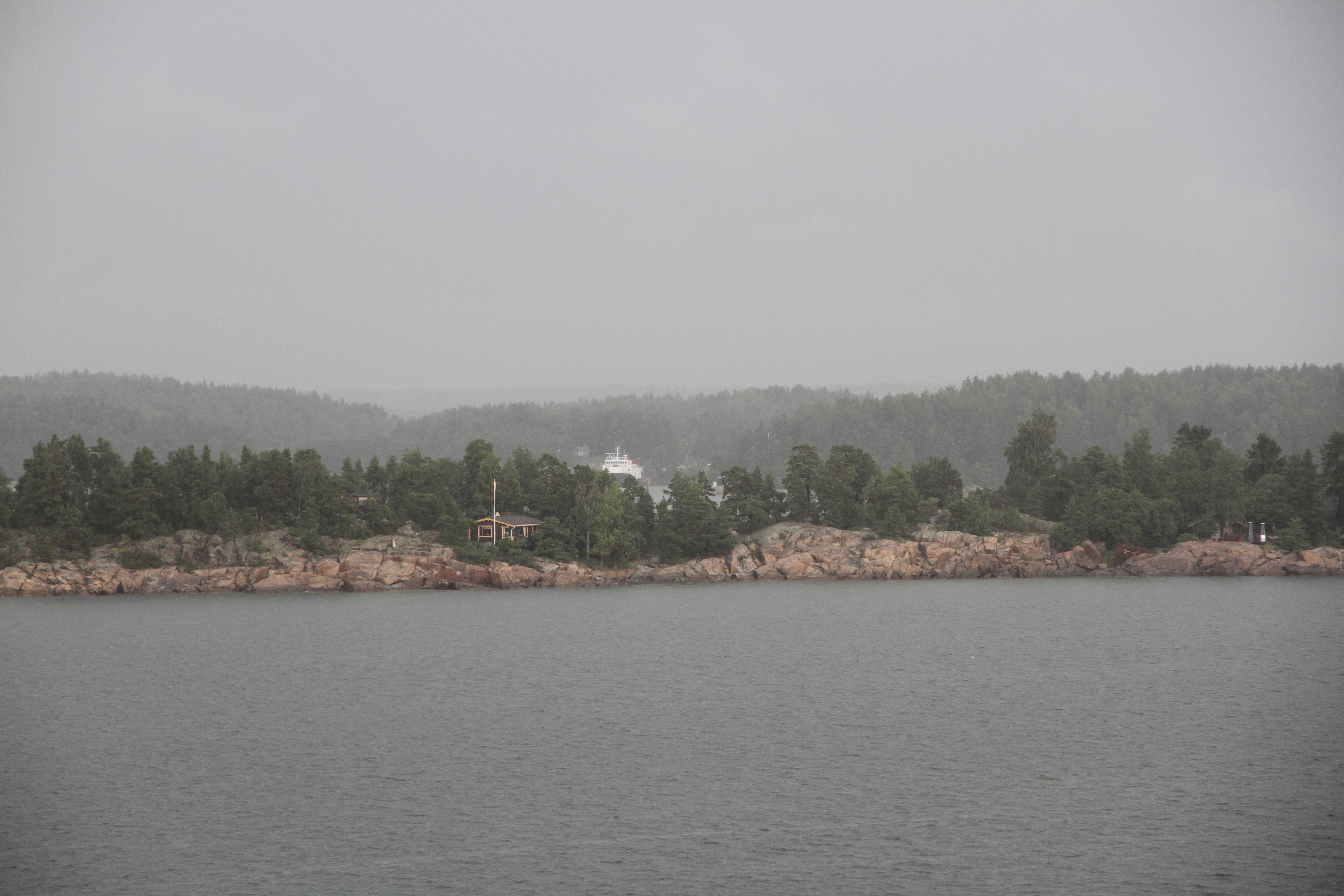 Aaslaluoto is an island in the Archipelago Sea, Naantali Finland.